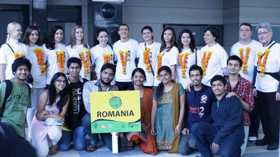 The contingent from Romania in Global Mela of Mood Indigo 2012